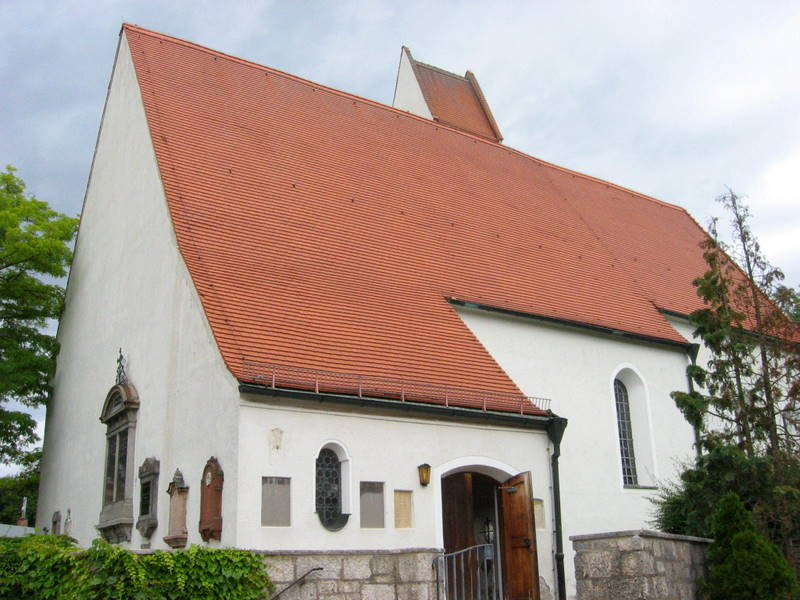 Frauenkirche Gauting